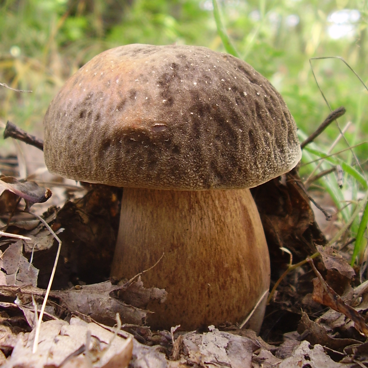 Boletus arereus